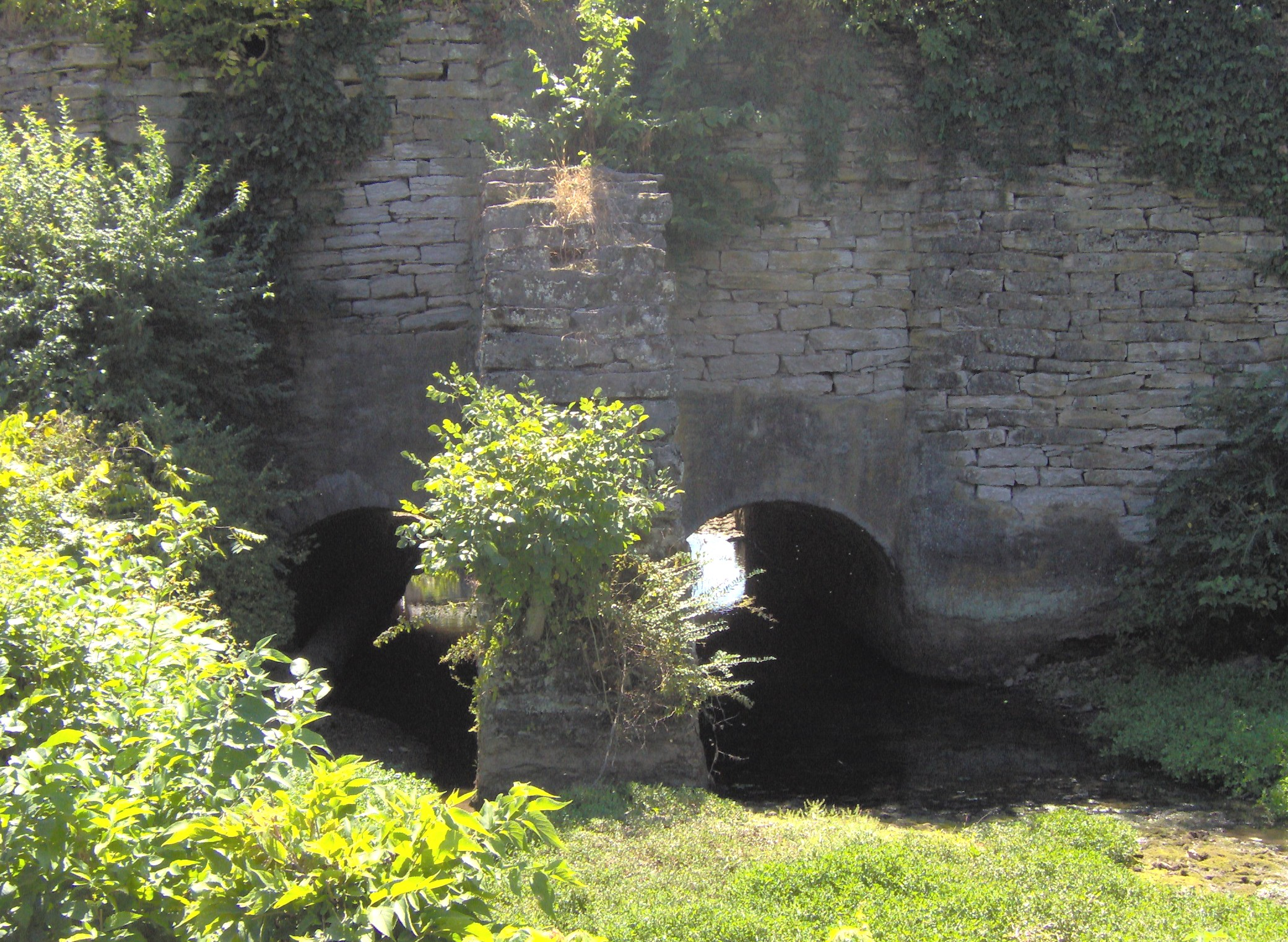 Royal Spring, the main source of water for Georgetown, Kentucky since earliest settlement as McClelland's Station in 1775. (View of Royal Spring from looking across West Main Street, by the old Scott County jail).